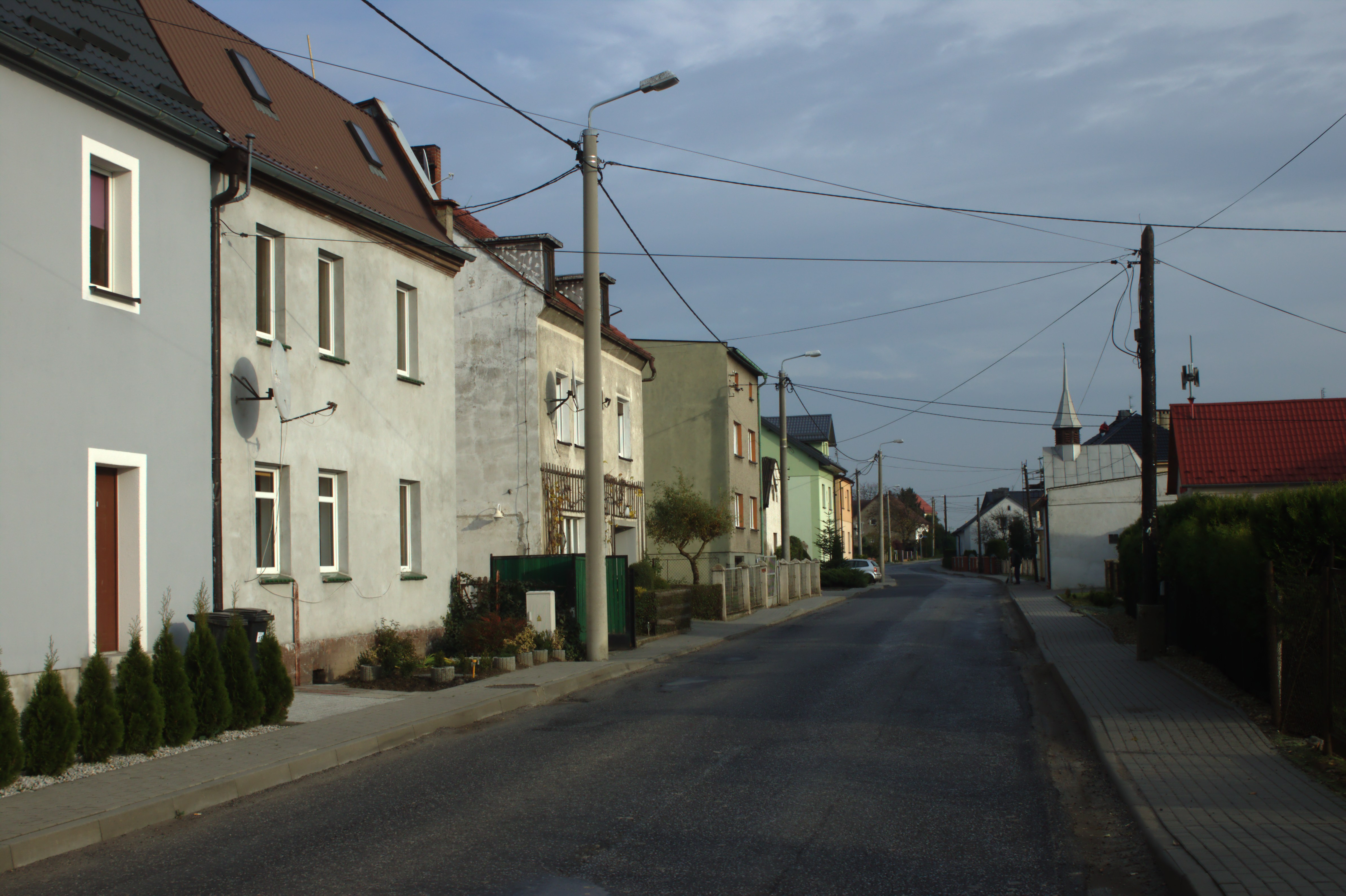 Main road seen from the local chapel. Lekartów, Poland